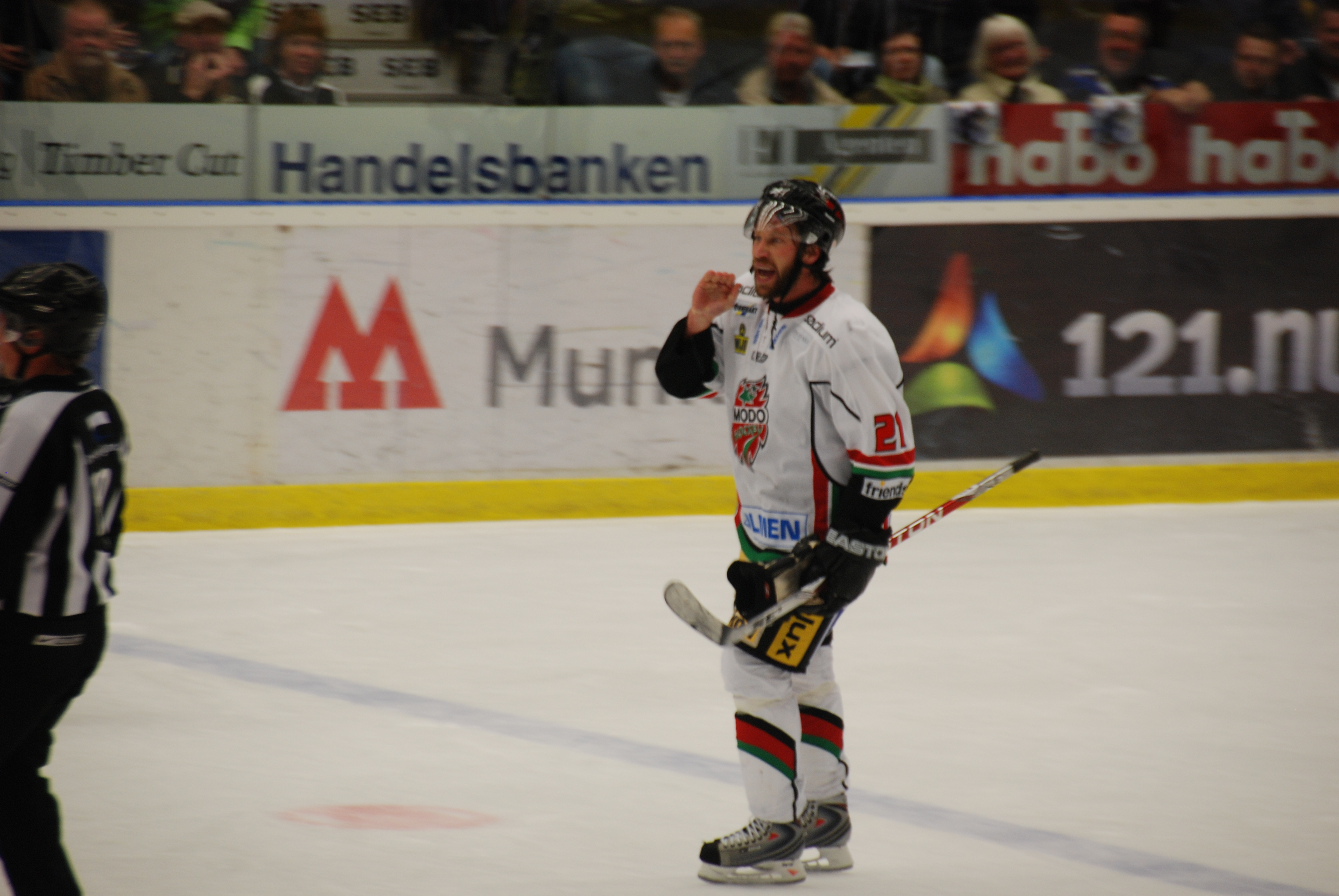 Peter Forsberg being unhappy with a referee's decision, playing for MODO Hockey in the Swedish Elite League.